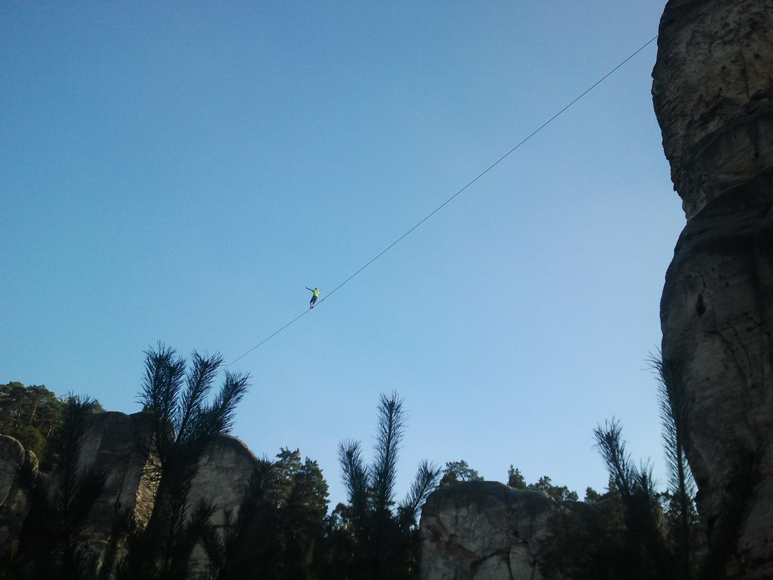 slackline u Lebky